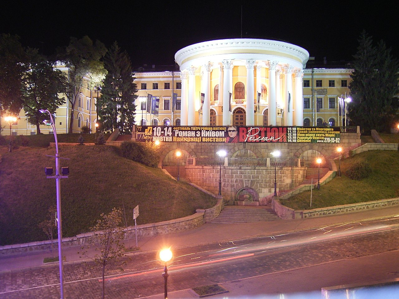 Kiev, Ukraine: Culture and arts centre "Zhovtnevy Palace" (October Palace)